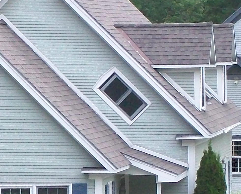 A Vermont or witch window, Irasville, Vermont.